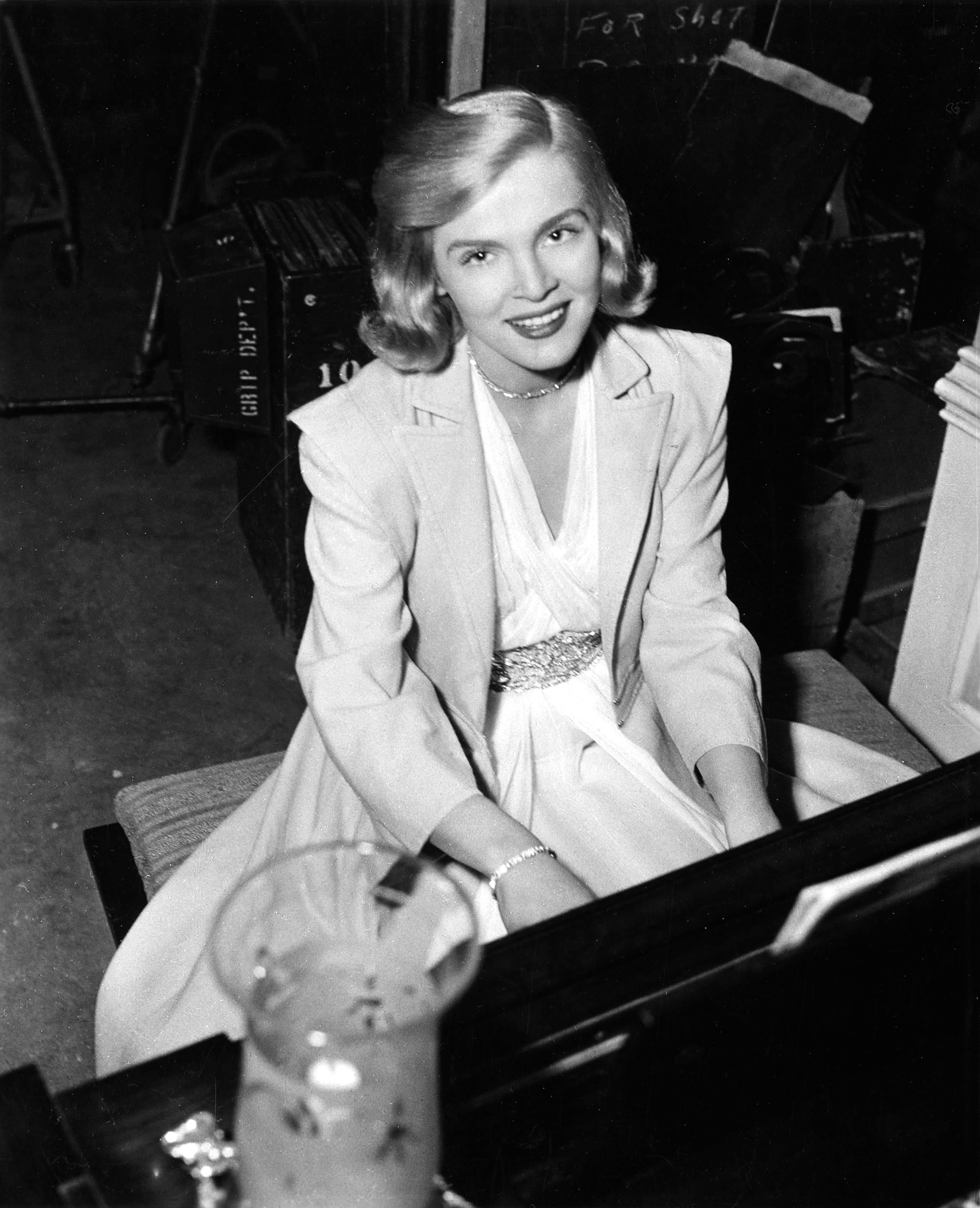 Publicity photo of American actress Lizabeth Scott in Stolen Face (1952)